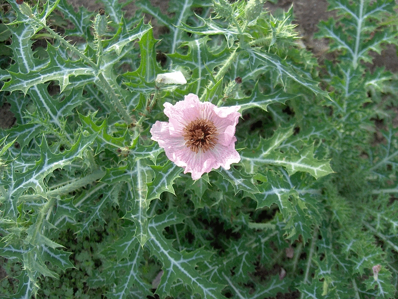 Rose Prickly Poppy